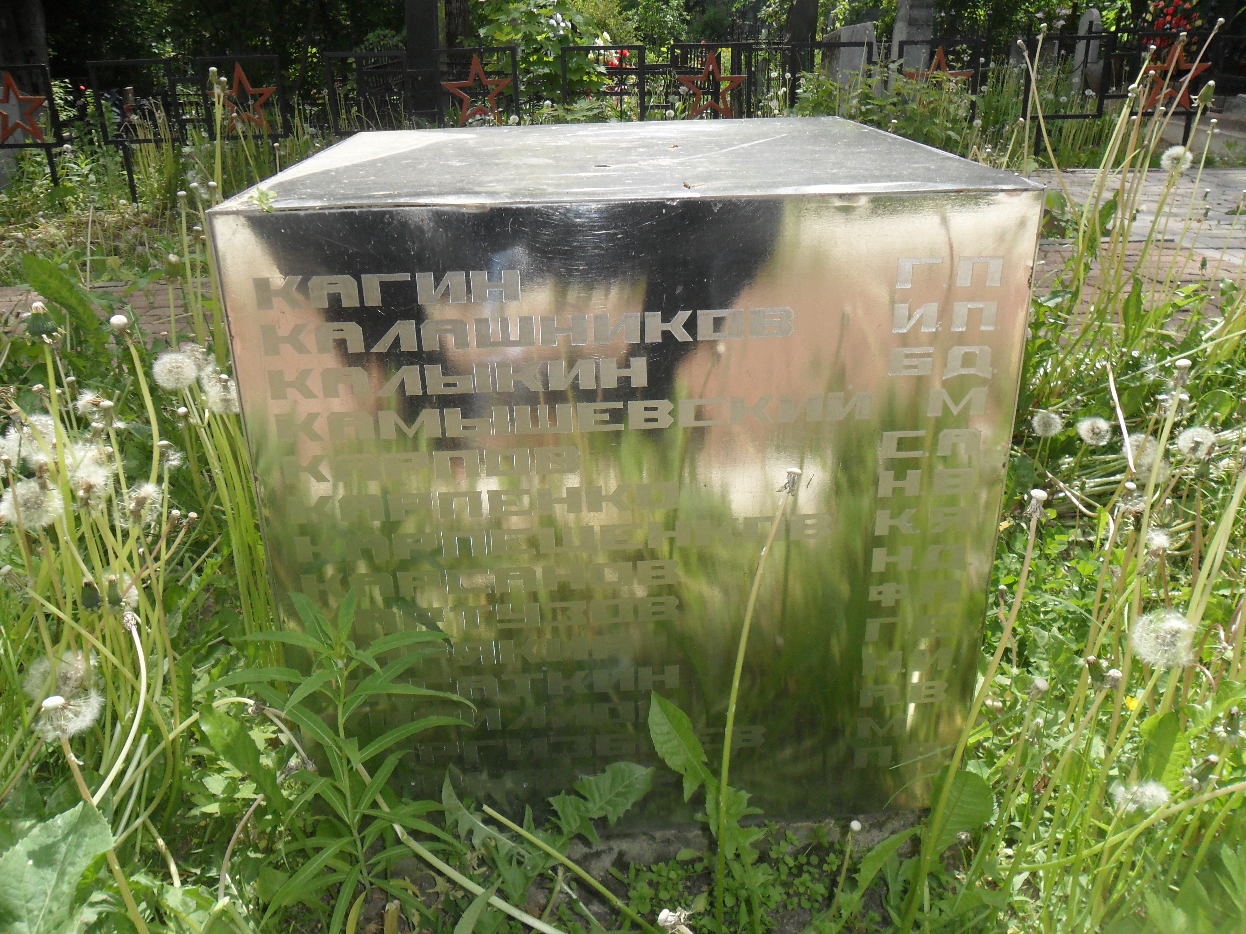 Metal with a list of names on one of the mass graves of those killed in the Great Patriotic War at the Tikhvin Cemetery. Fifth from the top of the list - Hero of the Soviet Union, Stephen Arkhipovich Karpov. The object of cultural heritage at the regional level.